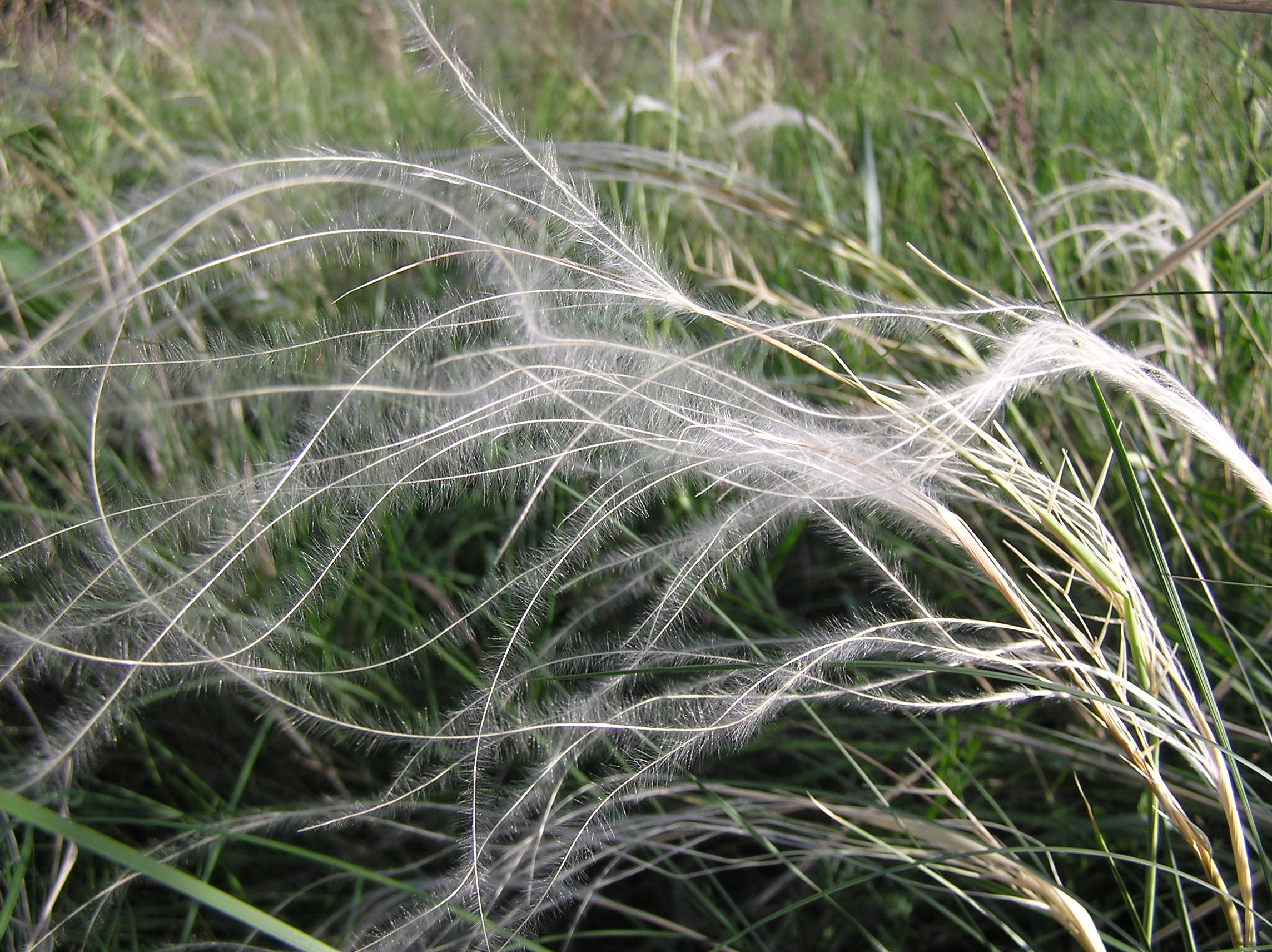 Feather Grass (Stipa pennata L.). Habitat: meadow steppe on a western rocky slope. Vicinity of Saratov city, Russia.